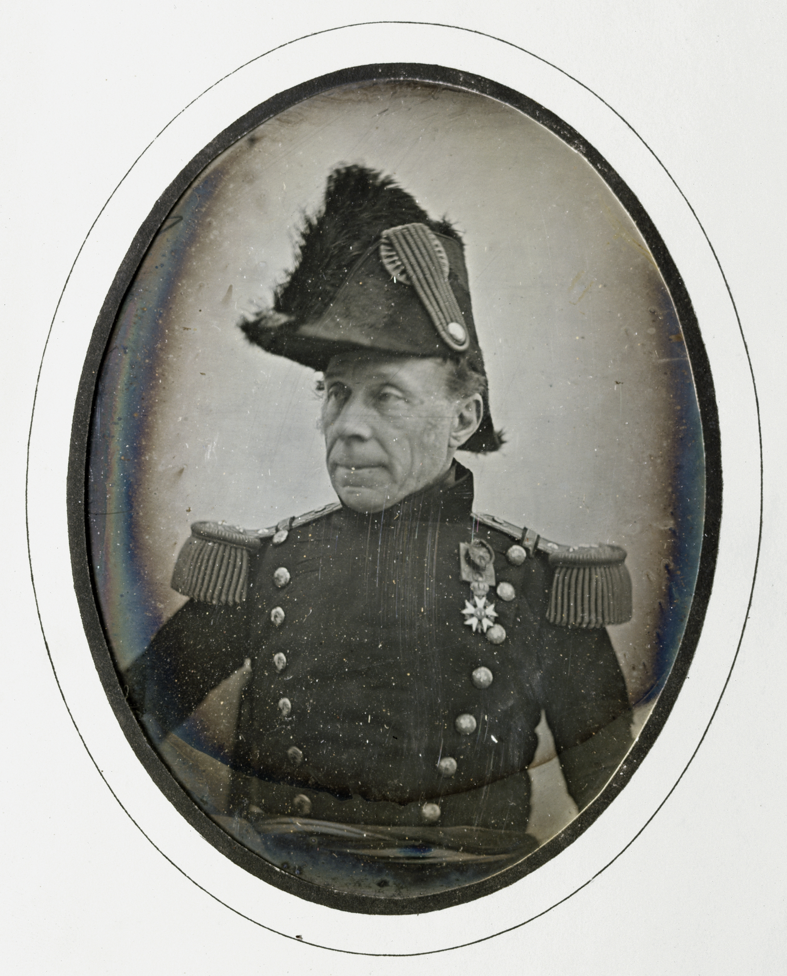 Guillaume Henri Dufour, daguerreotype by Jean de Humnicki. Guillaume-Henri Dufour (1787, Konstanz-1875, Geneva) was a Swiss general and topographer.